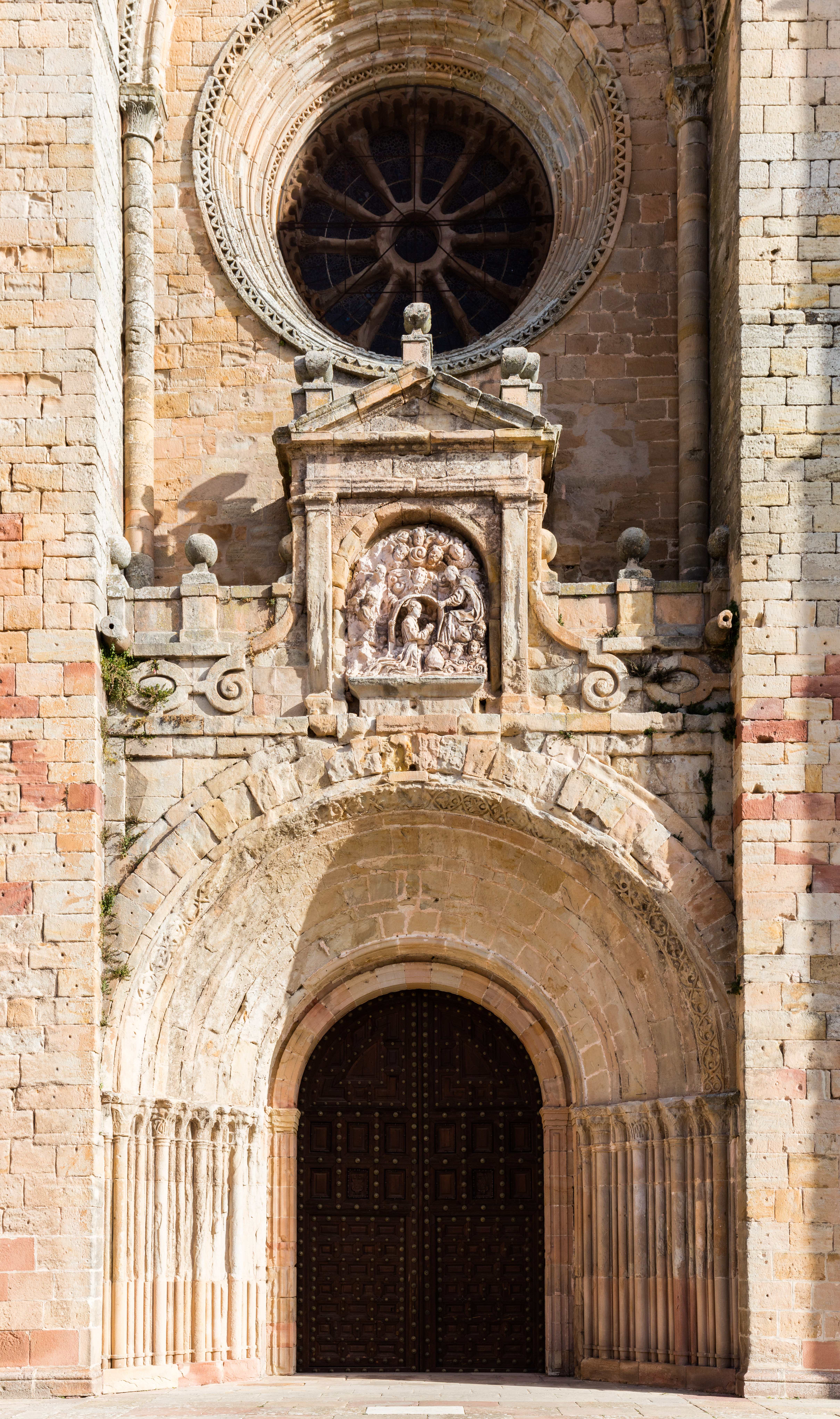 Cathedral of Santa María, Sigüenza, Spain